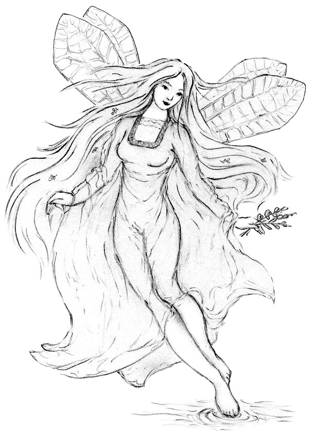 Wiła - Slavic demon.